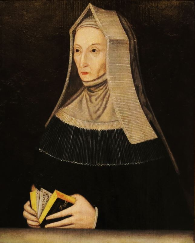 Portrait of Lady Margaret Beaufort from the dining hall of Lady Margaret Hall, Oxford